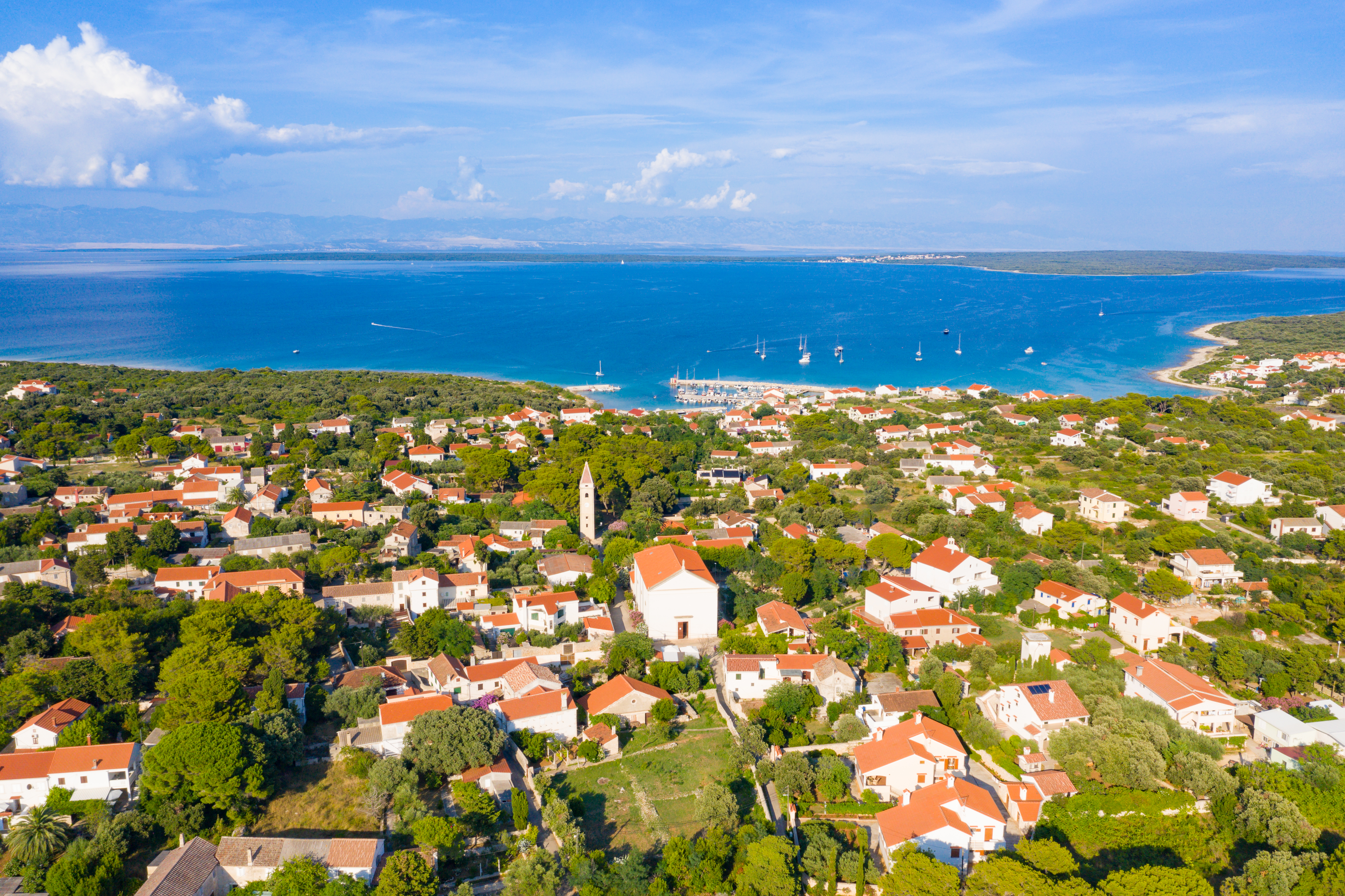 Central end of the Silba island in Croatia with a view to the harbour